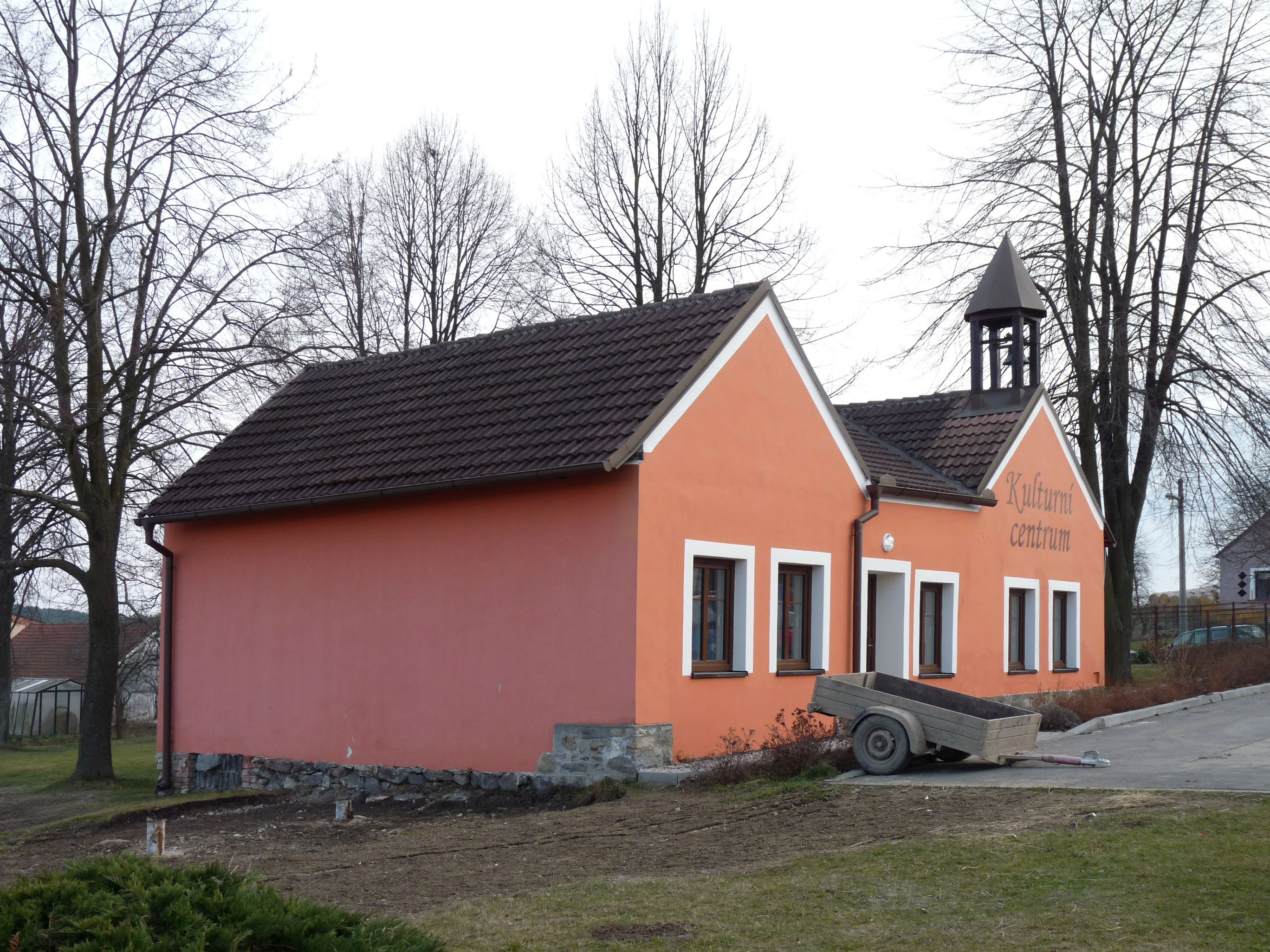 Culture House, house No 60 in the village of Slavče, České Budějovice, South Bohemia, Czech Republic.